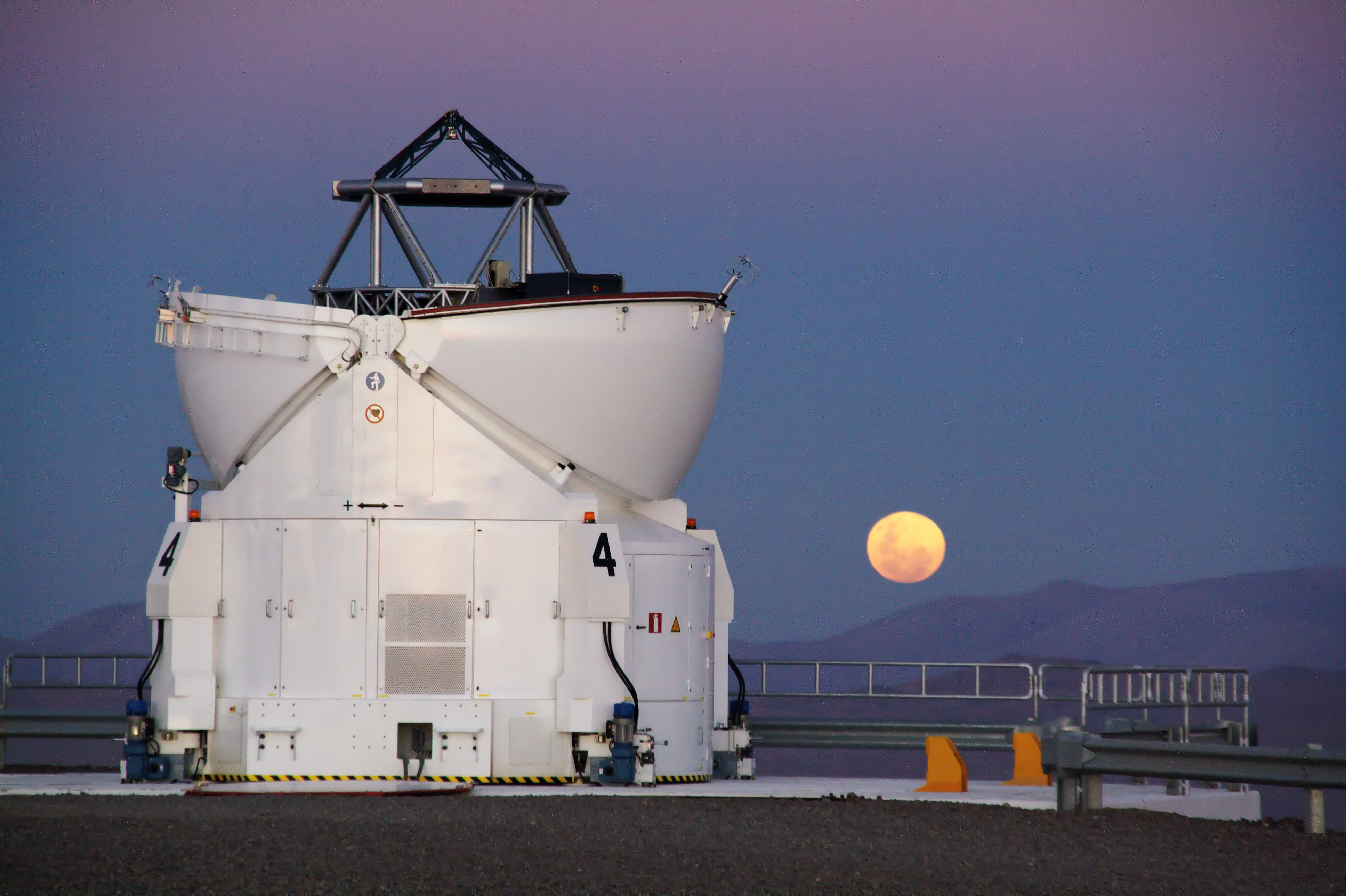 Deep in the heart of the Atacama Desert, home of the Paranal Observatory, the Sun is setting at the start of another clear night. This charming photograph, taken by ESO Photo Ambassador Gianluca Lombardi shows one of four Auxiliary Telescopes (ATs) that belong to ESO’s Very Large Telescope (VLT) sitting boldly against a vivid sky of pink and blue. The full Moon, seen hovering over the horizon, has a distinctly reddish hue, a phenomenon caused by the scattering of light by Earth’s atmosphere. When the Moon is close to the horizon, the light we see from it must travel through a greater thickness of the atmosphere, so the effects of scattering are increased. As red light is more resilient to scattering than green or blue, our view of the Moon is reddened. As it happens, the reddening effect is somewhat less pronounced at sites like Paranal, as the clear air contains fewer particles that cause scattering. In addition to this, Paranal’s isolated location, far from civilisation and hence sources of light pollution, makes it a perfect place for ground-based astronomy. The 1.8-metre Auxiliary Telescopes are integral to the VLT Interferometer (VLTI). Whereas the Unit Telescopes are very often engaged in independent activities, the ATs devote all their time to the interferometer. One advantage of this is that the ATs can be used for regular, long-term monitoring observations, which allow exceptionally precise measurements to be made of object positions; this is known as the Narrow Angle Astrometry mode of the VLTI. The ATs telescopes are mobile and able to relocate between 30 different observing positions. By utilising the entire Paranal platform this way, a separation of 202 metres between ATs is possible — the longest baseline of the VLTI.